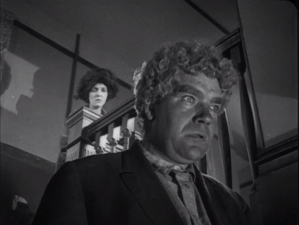 Scenography for the movie Greed (1924); ZaSu Pitts and Gibson Gowland.